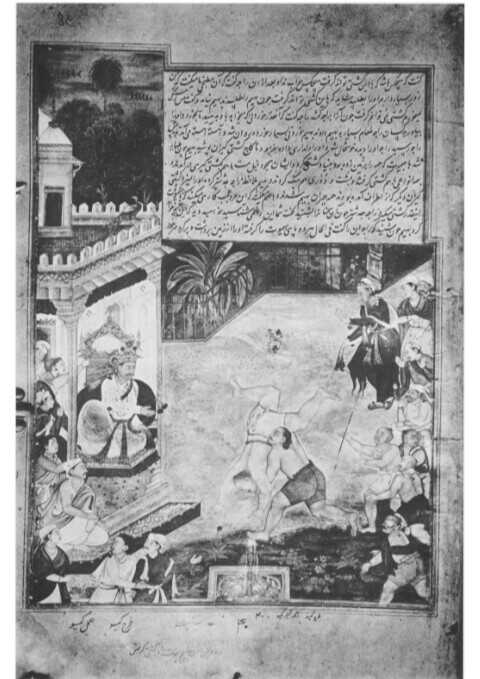 Virata parwa episode. Miniatures signed by kesho. From Jaipur Razmnama.